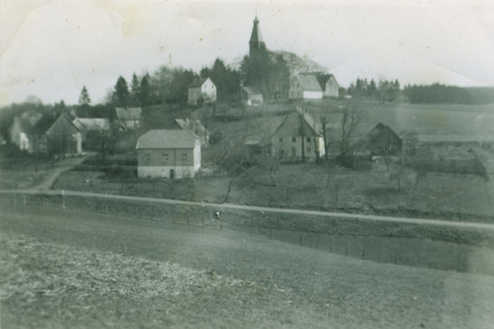 Belmicke early 20th century